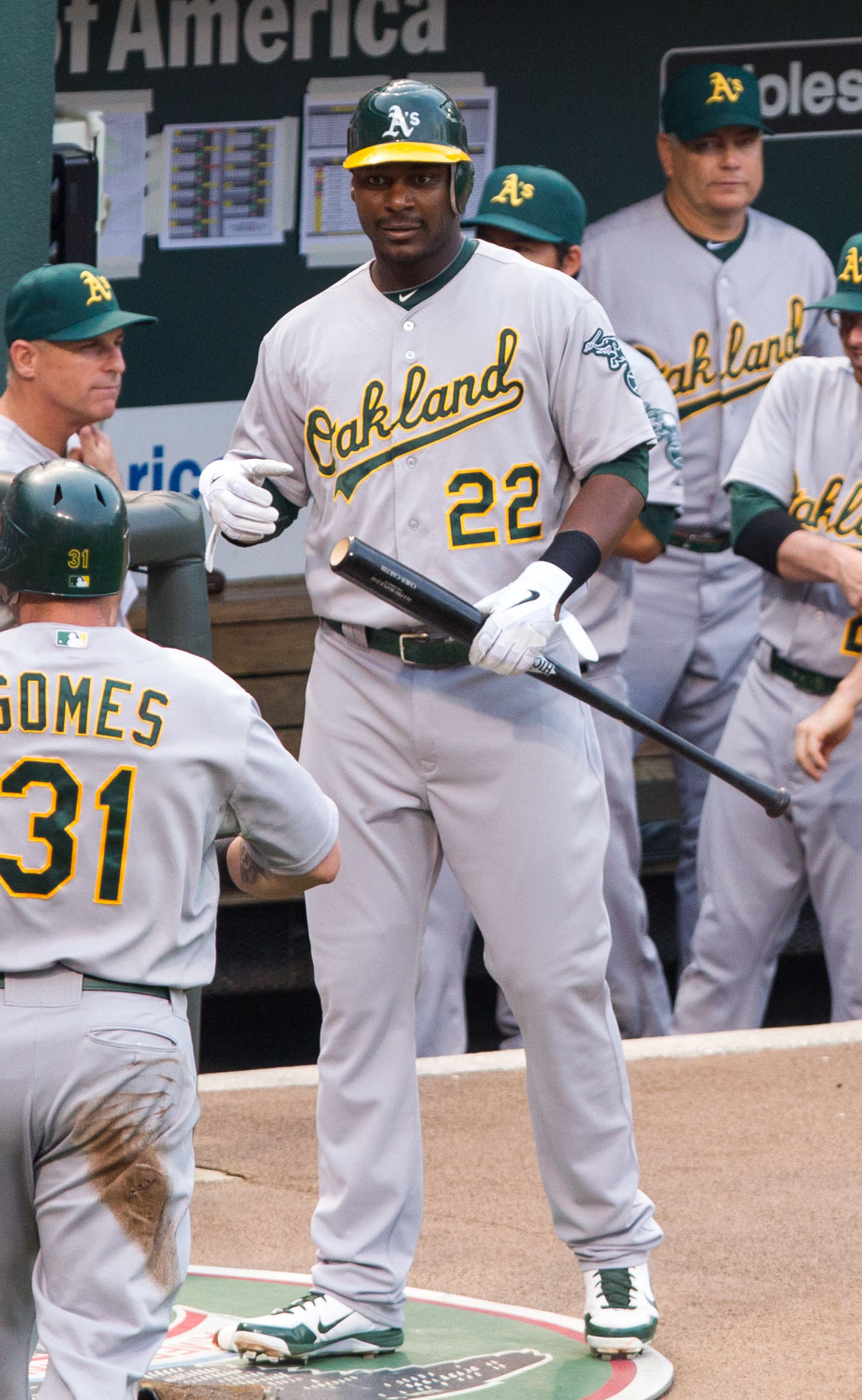 Chris Carter